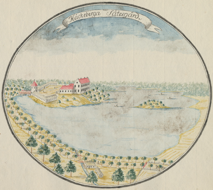 Häckeberga Castle (Scania, Sweden) circa 1780